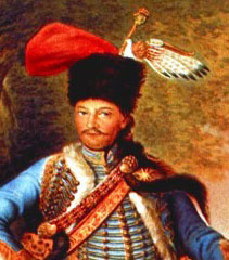 count Sandor Karolyi face crop